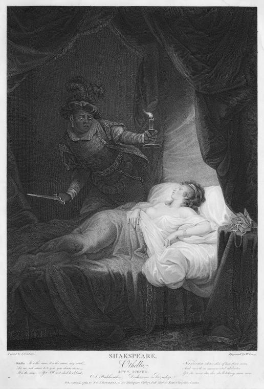 "A Bedchamber, Desdemona in Bed asleep", from Othello (Act V, scene 2), part of "A Collection of Prints, from Pictures Painted for the Purpose of Illustrating the Dramatic Works of Shakspeare, by the Artists of Great-Britain", published by John and Josiah Boydell (1803)